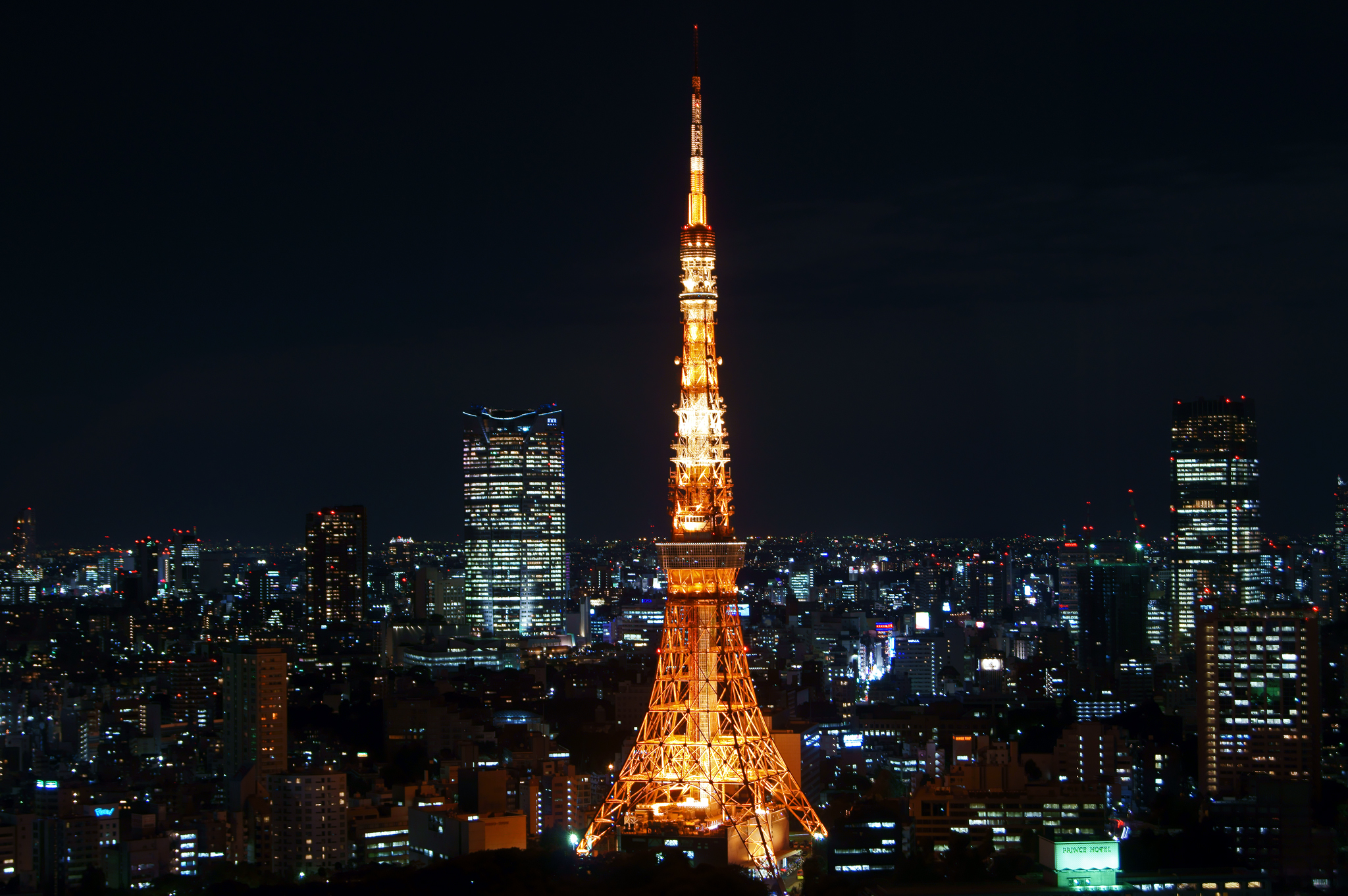 Tokyo Tower photographed from the observatory of the World Trade Center in Hamamatsucho using a Sony SLT-A55V.